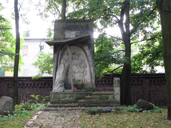 Calvary in Katowice Panewniki, Chapel of the Rosary - The fifth joyful mystery "Finding of the Child Jesus in the Temple". Completed in 1957.